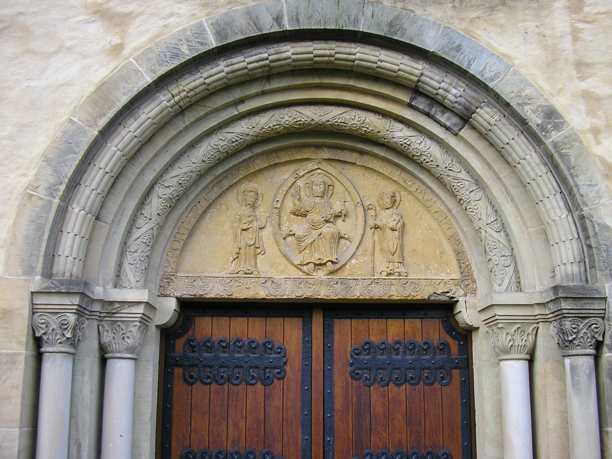 Tympanum in town of Enger, District of Herford, North Rhine-Westphalia, Germany.